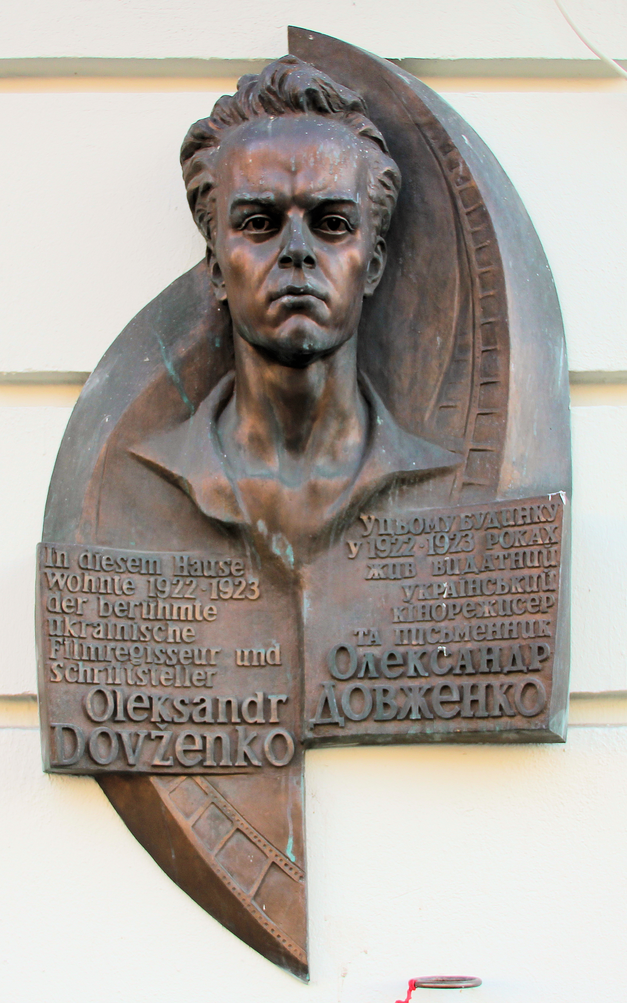 Memorial plaque, Oleksandr Dowschenko, Bismarckstraße 69, Berlin-Charlottenburg, Germany Koordinate:52°30′39″N 13°17′55″E / 52.51083°N 13.29861°E